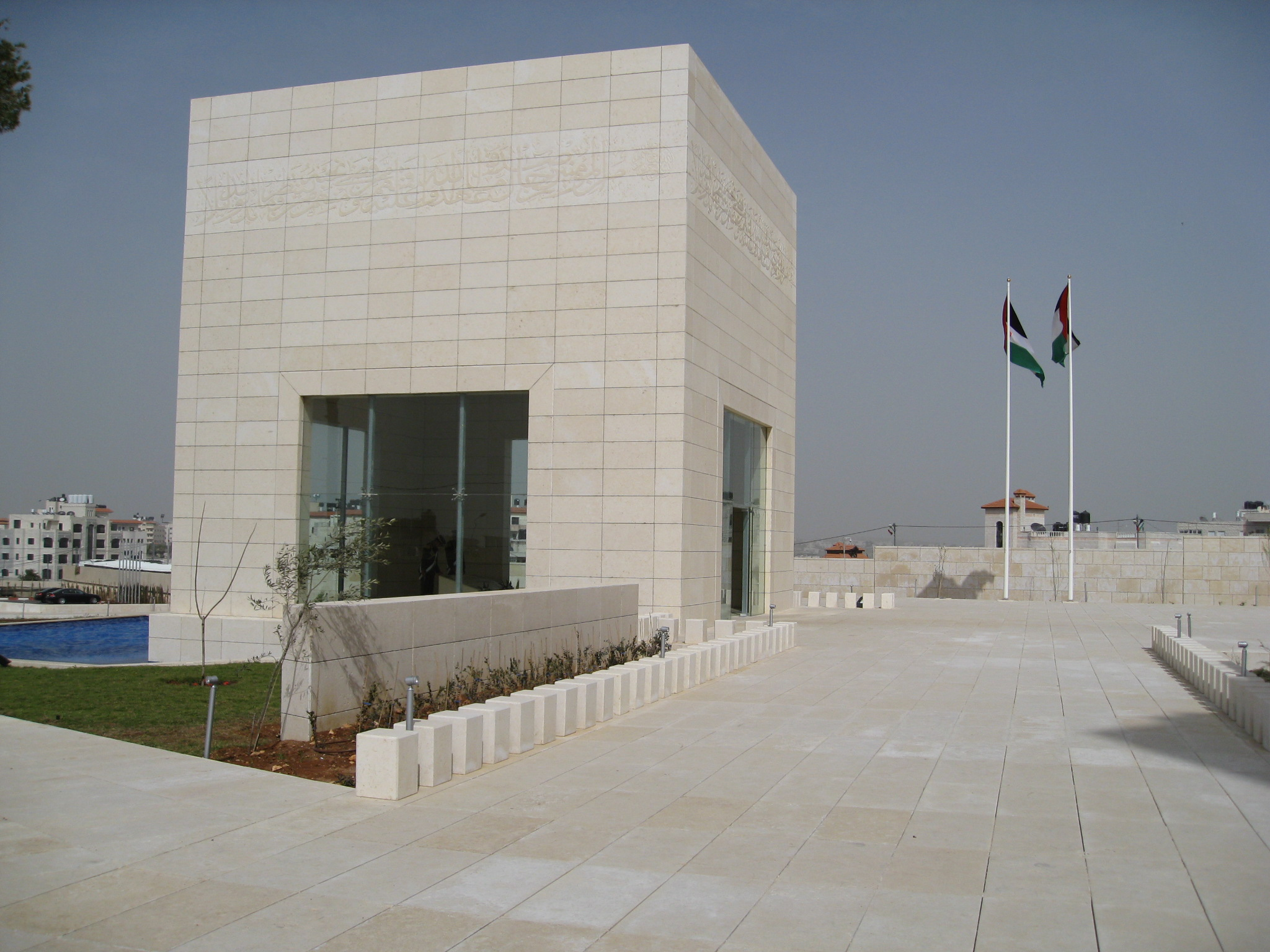 Yasser Arafat's Mausoleum